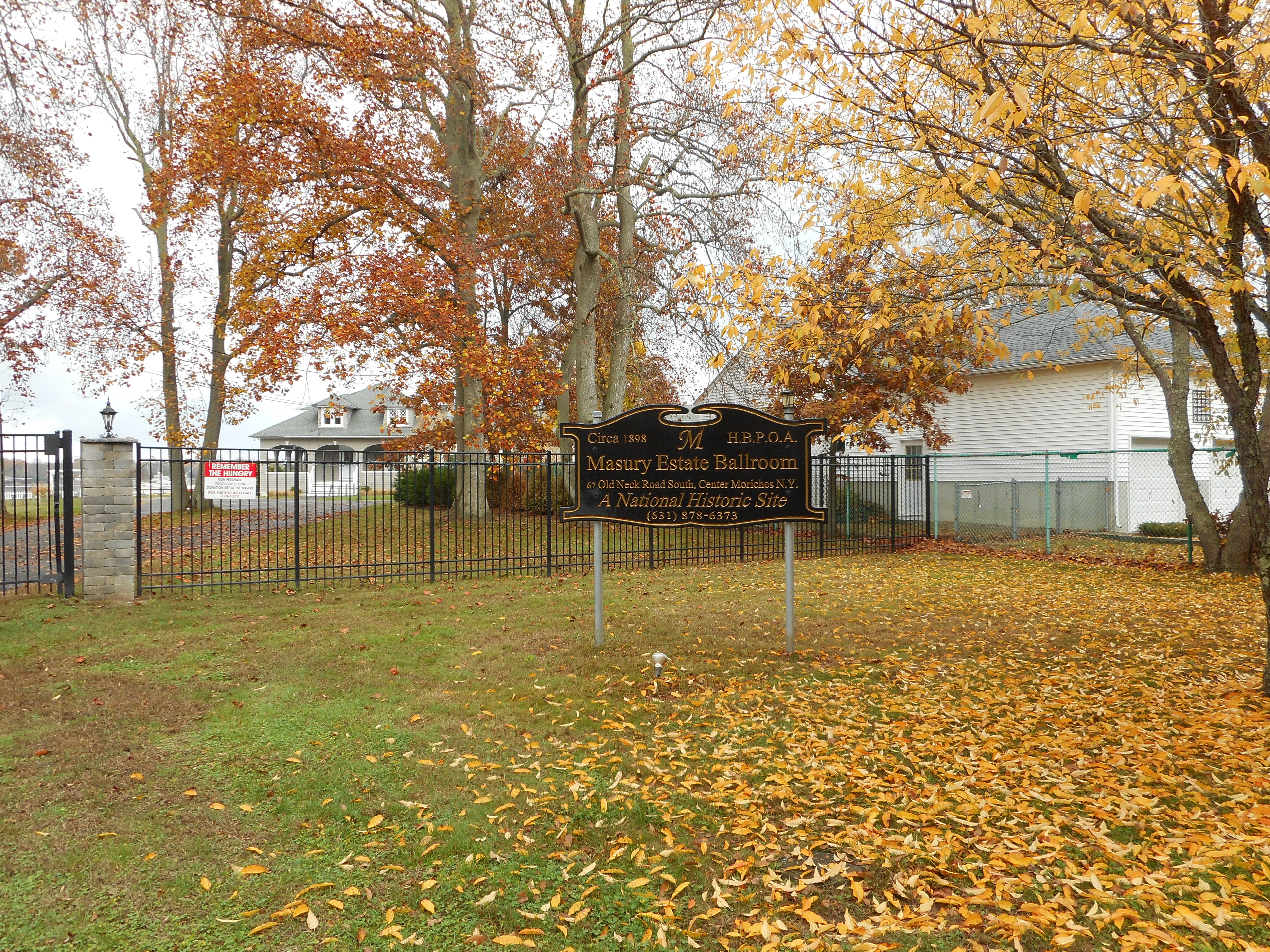 The Masury Estate Ballroom at 67 Old Neck Road South in Center Moriches, New York. Details to come later.